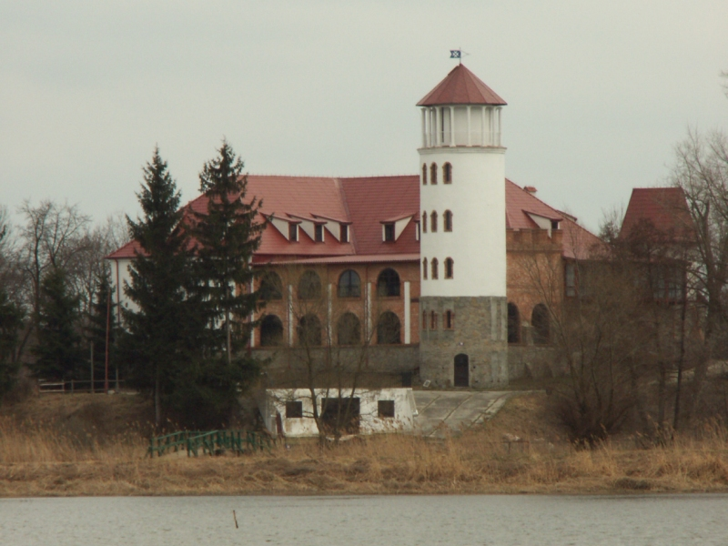 Castle in Zaklikow, Podkarpacie, Poland.